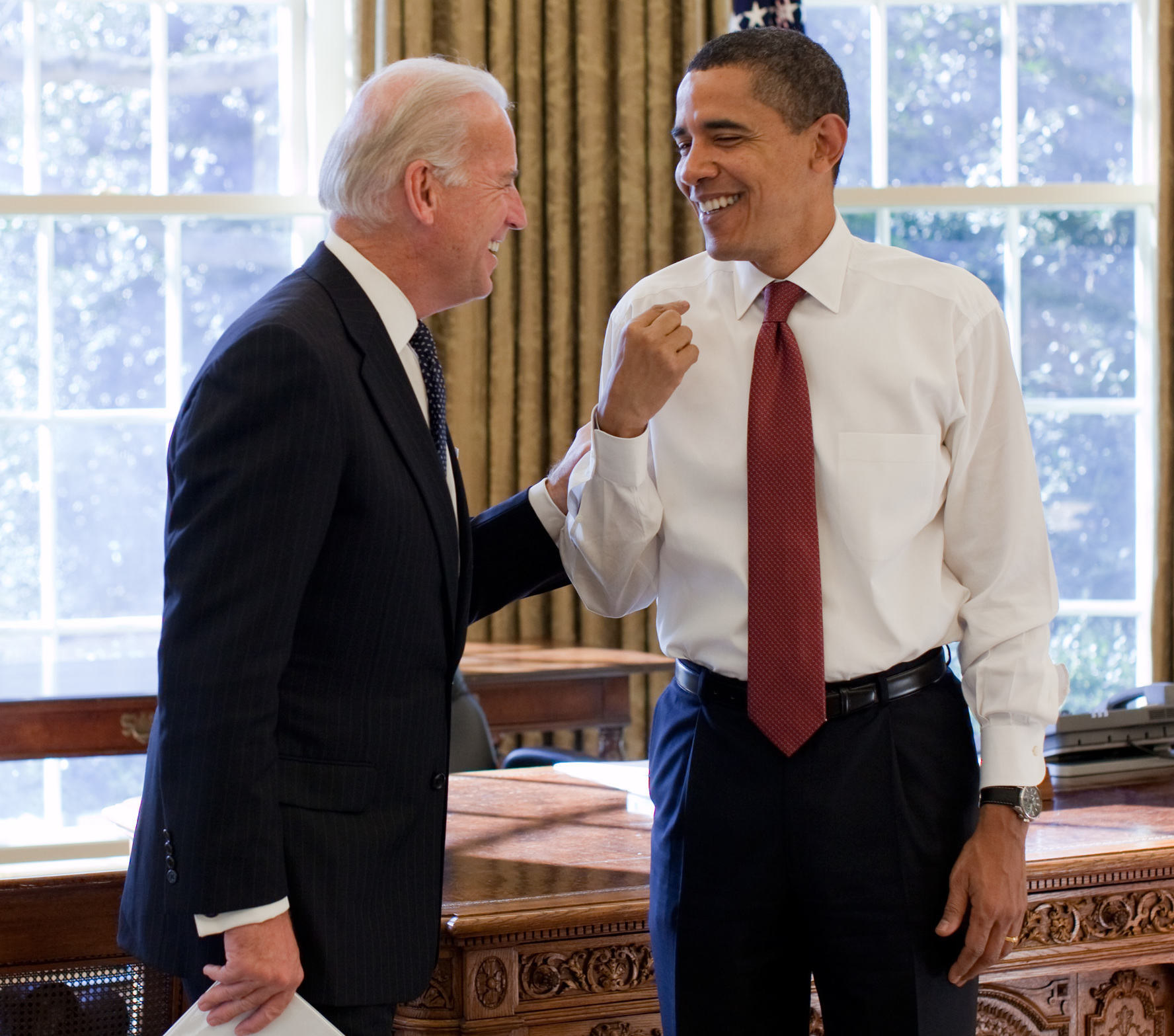 President Barack Obama and Vice President Joe Biden laugh together in the Oval Office, 1/22/09.